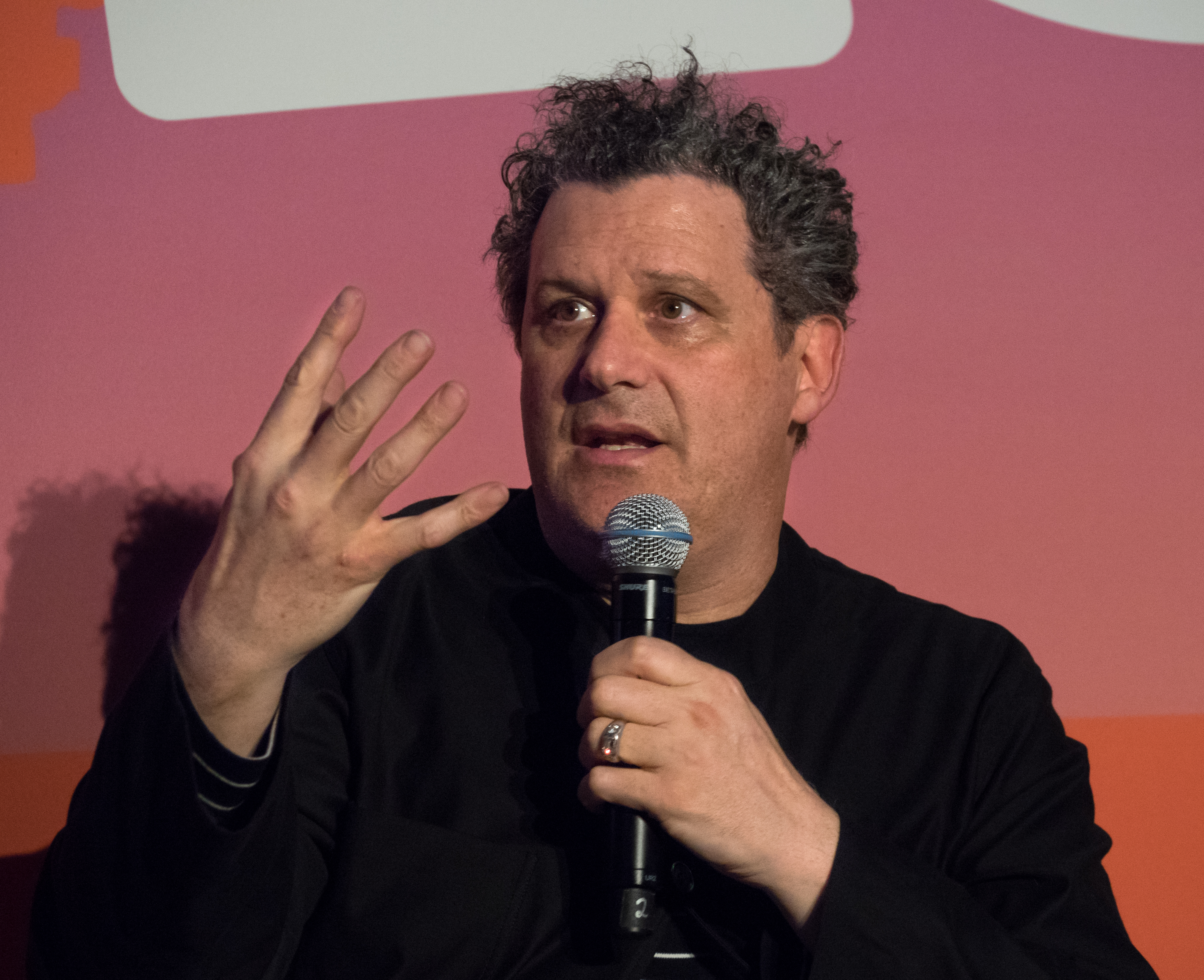 Isaac Mizrahi at Ozy Fest